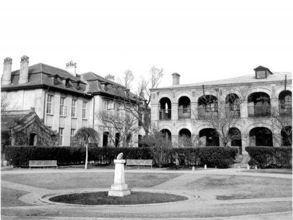 Peking University, Campus No.2